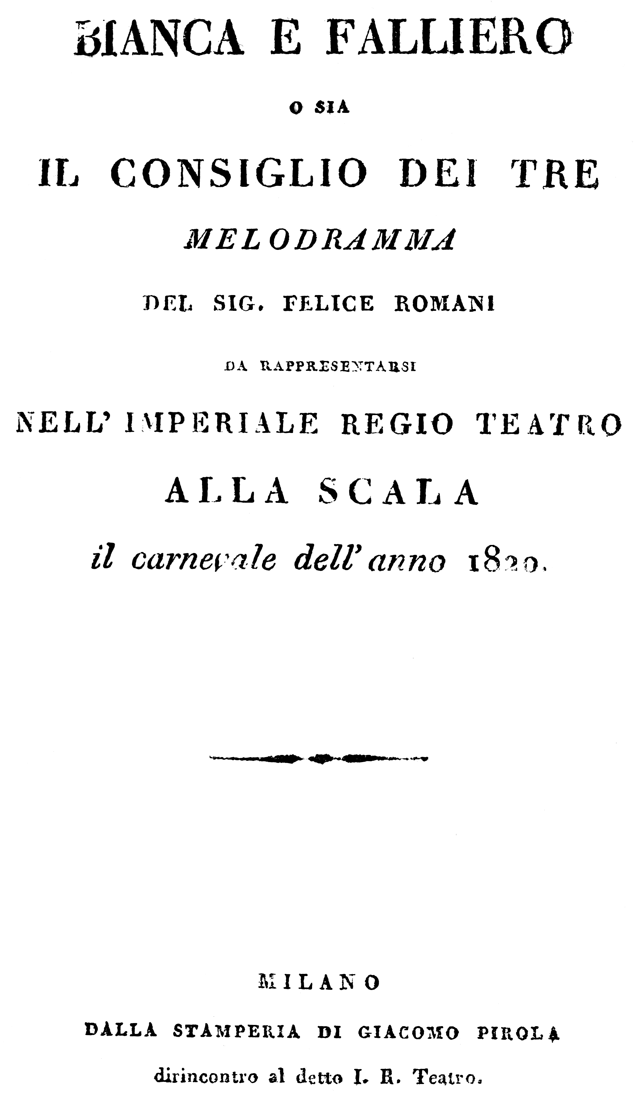 Gioachino Rossini - Bianca e Falliero - titlepage of the libretto - Milan 1820